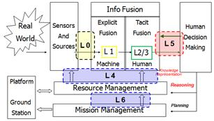 The Data Fusion Information Group Model From this paper (Fig 10) Both ISIF and US Gov have the copyright with author